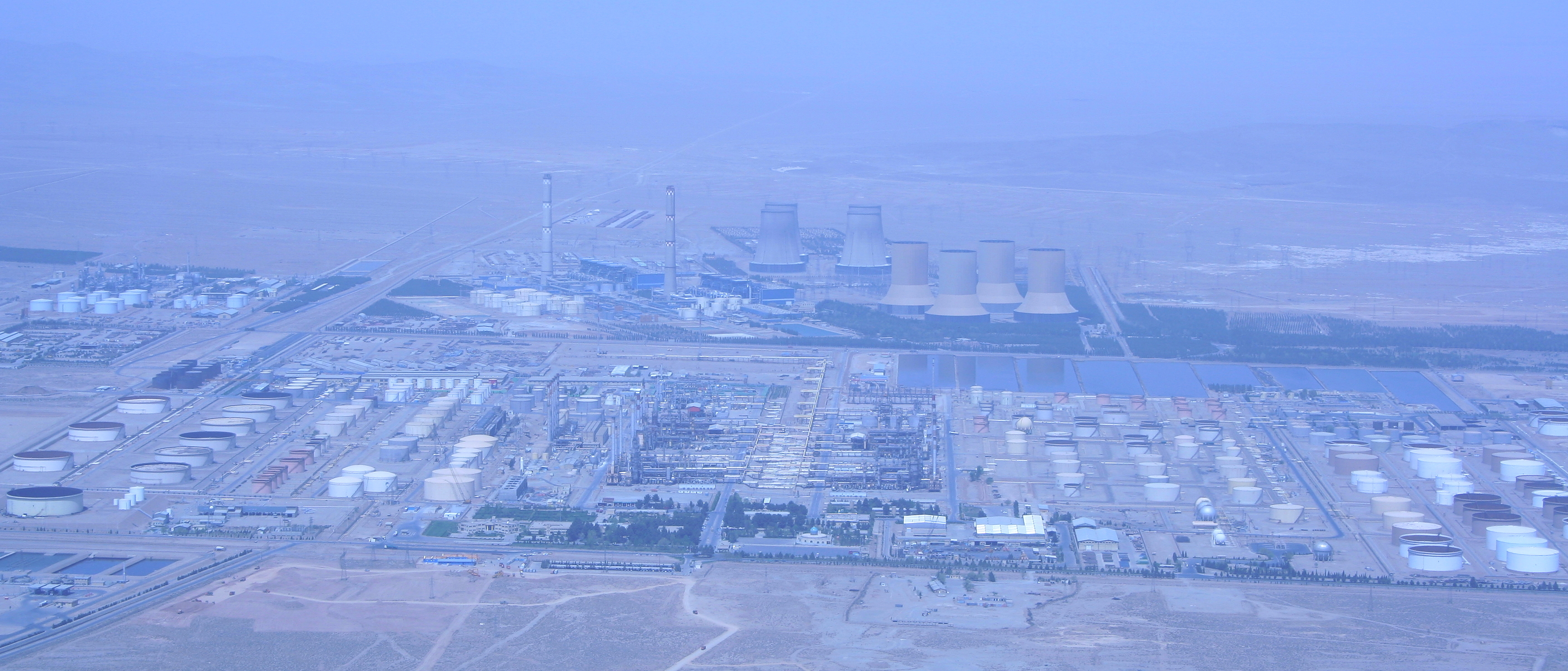 Isfahan Refinery in front of Isfahan Thermal Power Station, Iran.